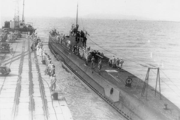 Japanese submarine I-10 (A-class), at Penang Port.